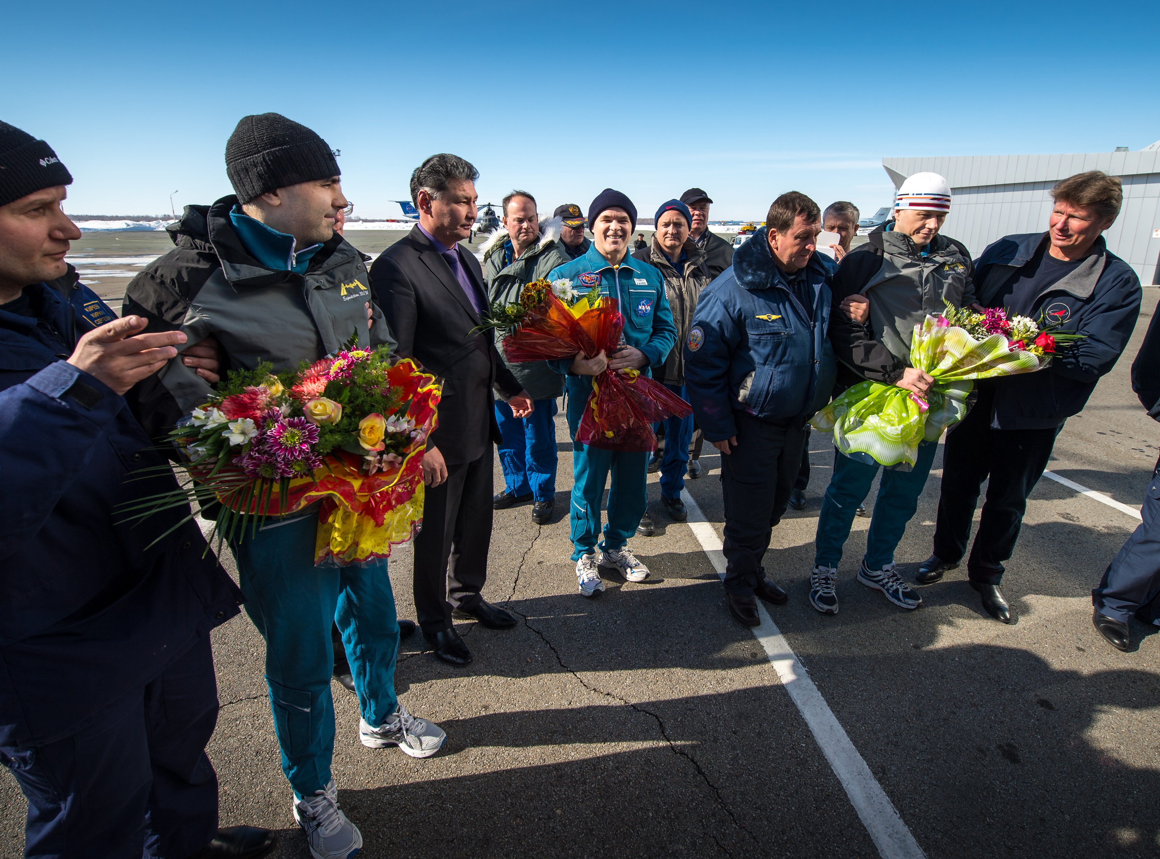 Expedition 34 Russian Flight Engineer Evgeny Tarelkin, left with flowers, Flight Commander Kevin Ford of NASA, center with flowers, and Russian Soyuz Commander Oleg Novitskiy are greeted at the Kustanay Airport a few hours after they landed near the town of Arkalyk, Kazakhstan on Saturday, March 16, 2013. Ford, Novitskiy, and Tarelkin are returning from 142 days onboard the International Space Station where they served as members of the Expedition 33 and 34 crews.